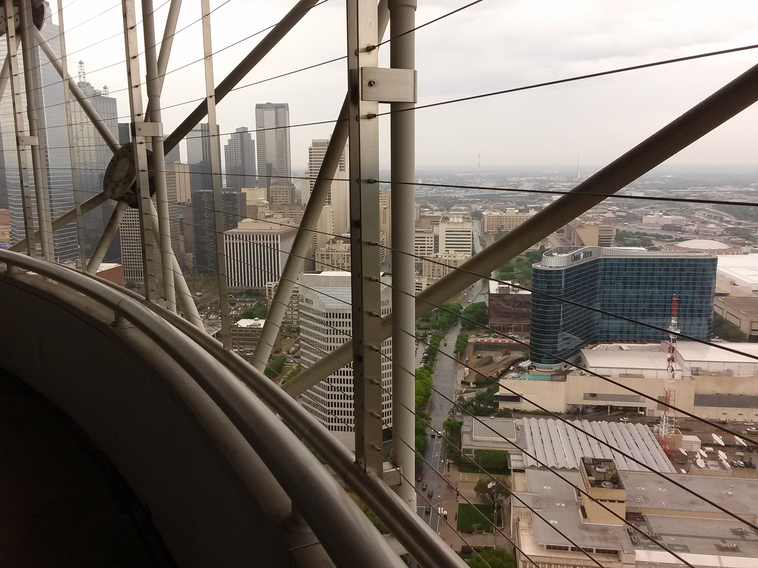 View from Reunion Tower